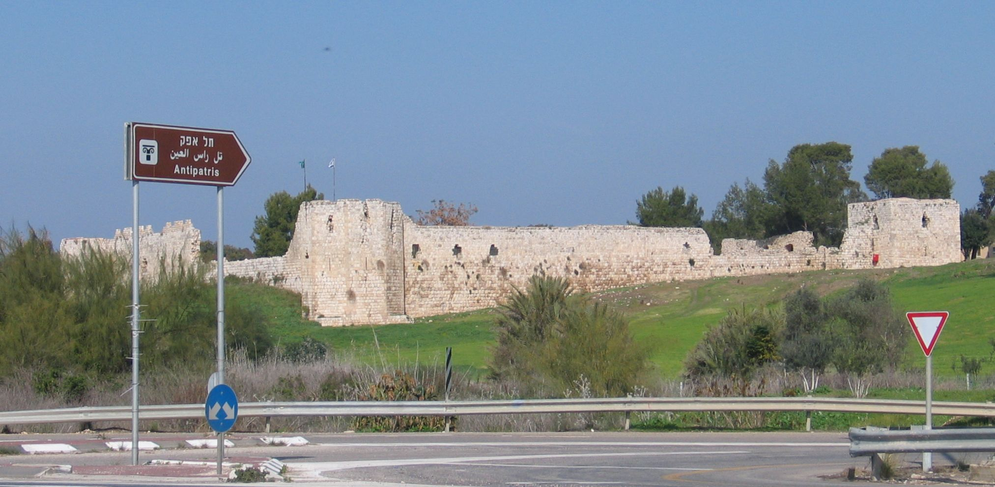 Binar Bashi fortress, Tel Afek, Yarkon national park, Israel (from the hwy no 483).